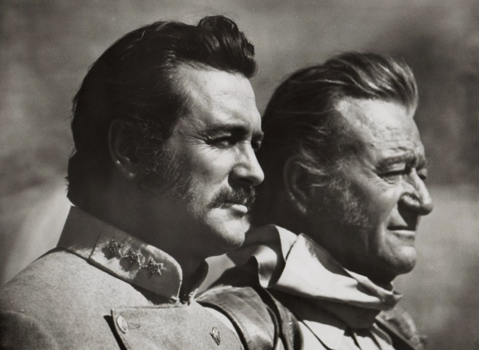 Rock Hudson (left) & John Wayne in The Undefeated - publicity still (cropped : see source)